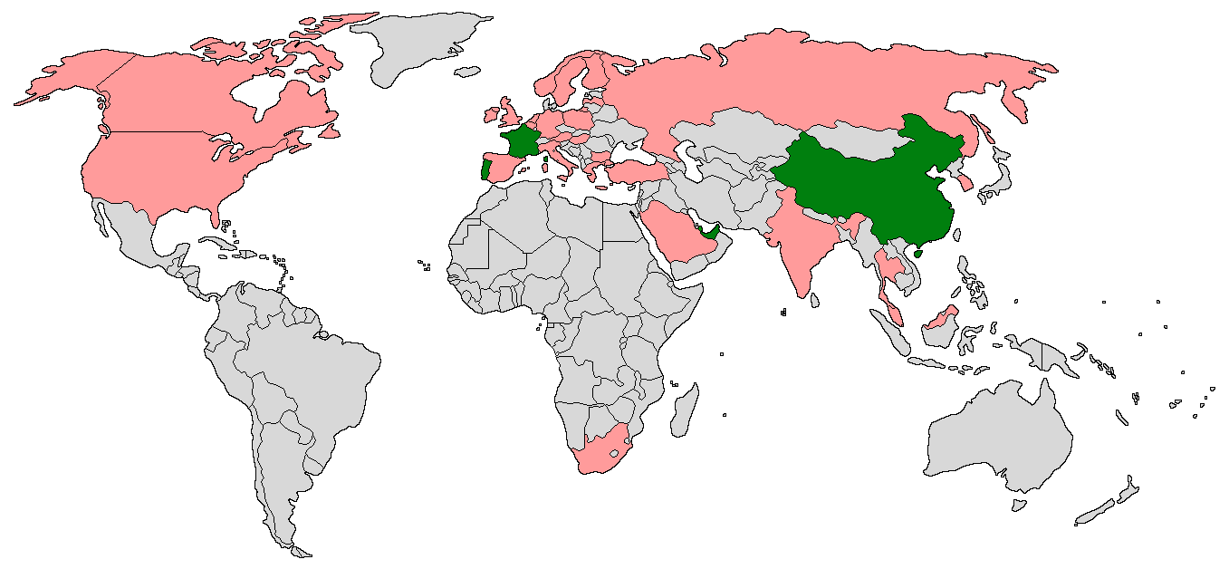 World map displaying the countries raced in by the Formula 1 Powerboat World Championship in its 2007 season in green. Former host nations shown in pink.